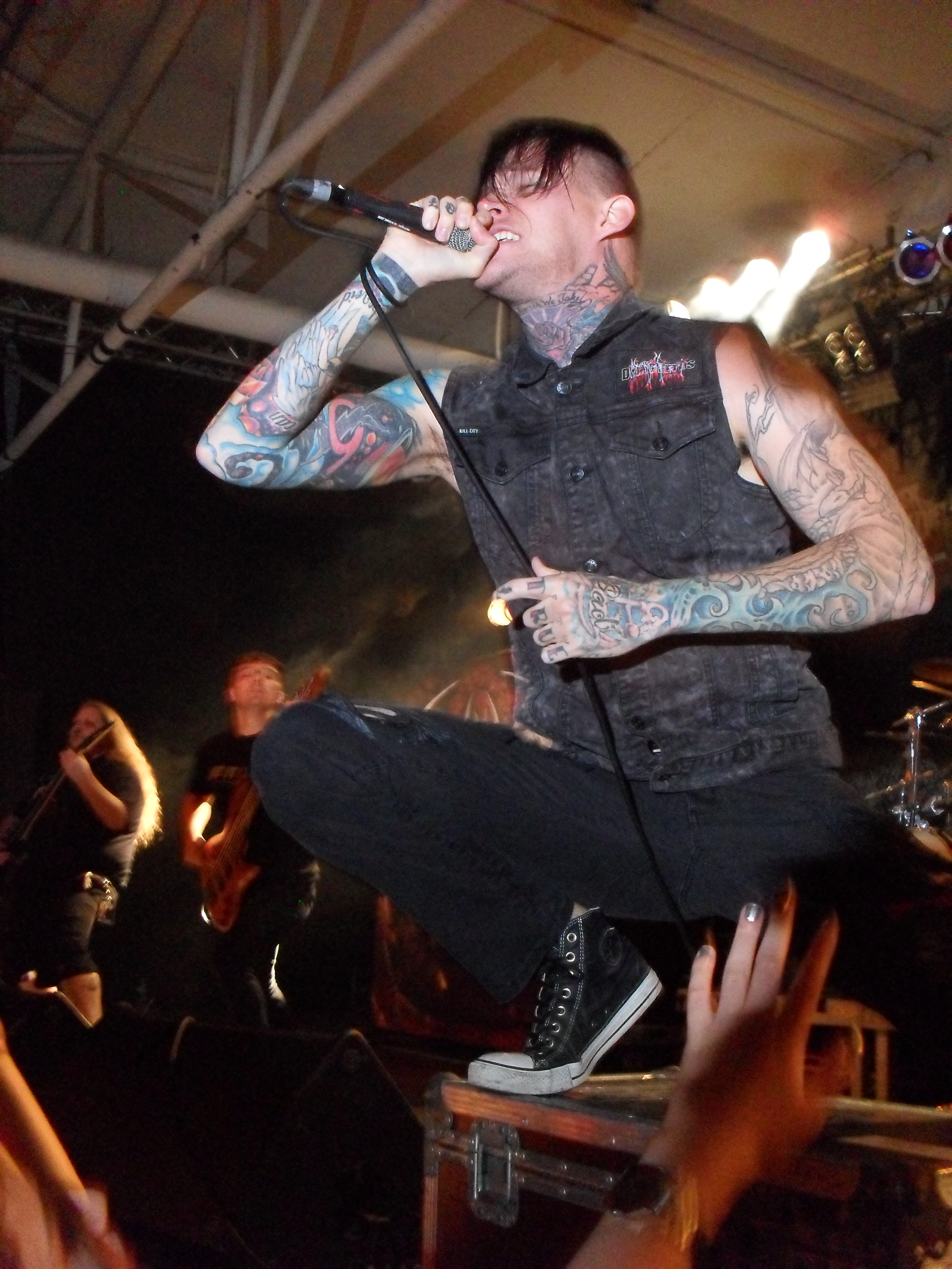 Scott Lewis of Carnifex during Never Say Die! Tour 2013 in Cologne